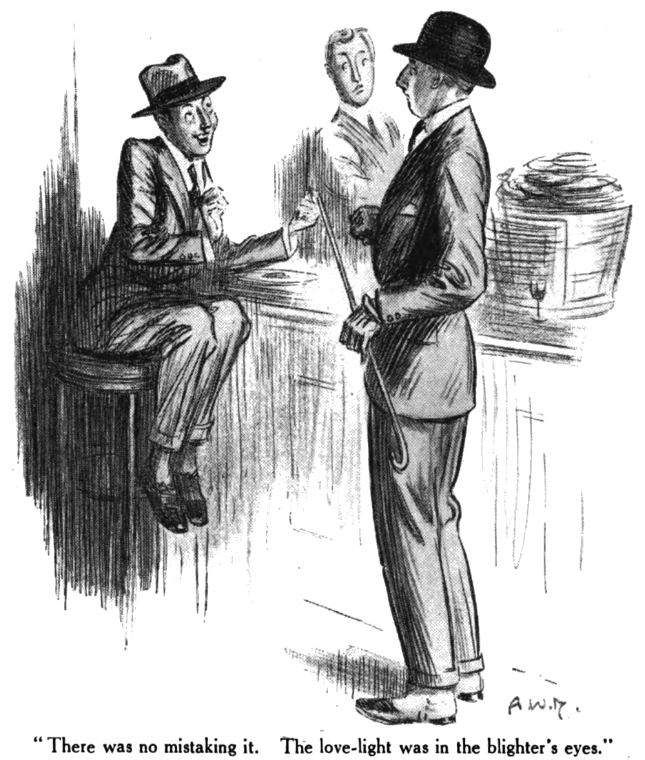 1922 Strand Magazine illustration by A. Wallis Mills for the short story "Scoring off Jeeves" by P. G. Wodehouse, featuring the characters Bingo Little and Bertie Wooster.